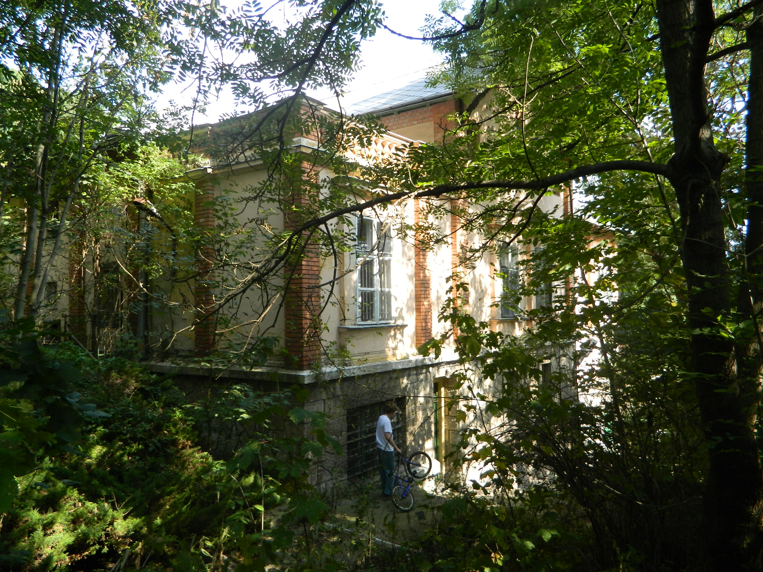 "Eye_of_God"_rest-house. Built cca 1760 in Zugliget, Budapest